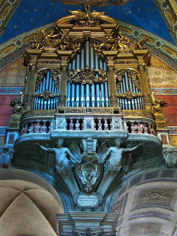 Basilica of Santa Maria sopra Minerva, Rome, Lazio, Italy. The monumental organ dating from the 17th Century have been built at the Cardinal Scipion Borghese's expense; the technical part is the work of Ennio Bonifazi, the decoration by Paolo Maruscelli.